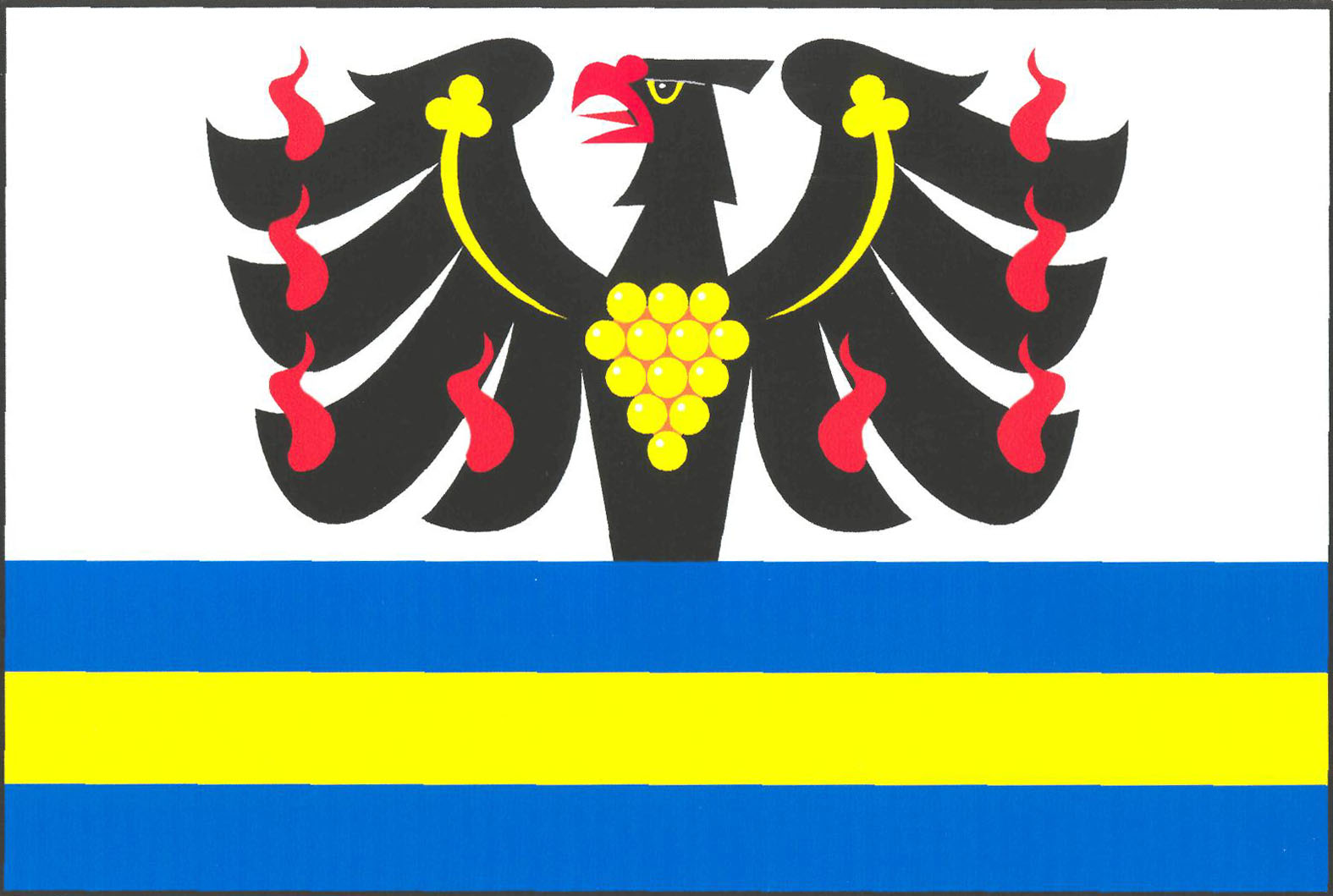 Municipal flag of Dřetovice village, Kladno District, Czech Republic.